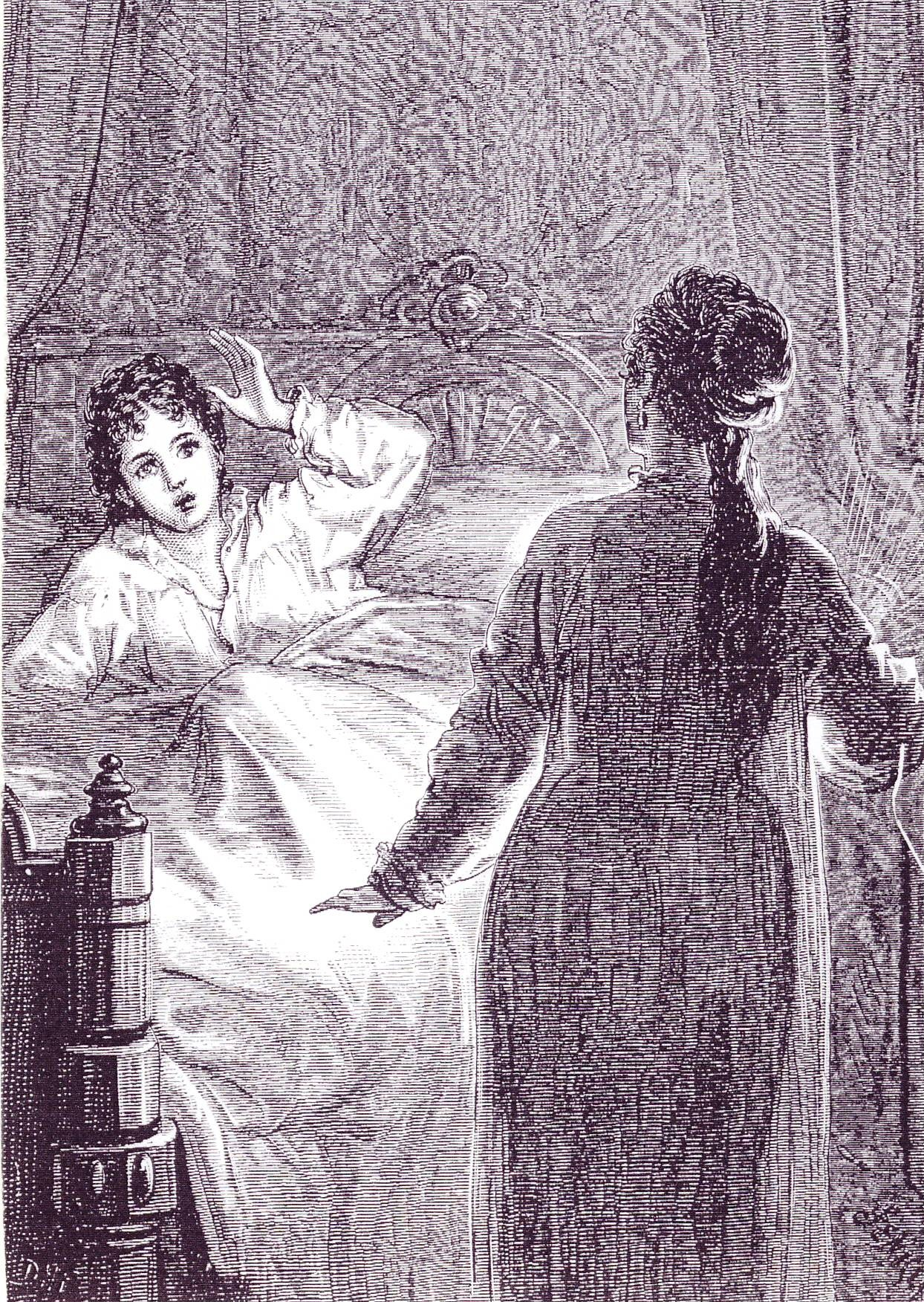 Illustration by David Henry Friston for Carmilla, in The Dark Blue (February 1872), electrotype after wood engraving, reproduced in Best Ghost Stories, ed. Bleiler.